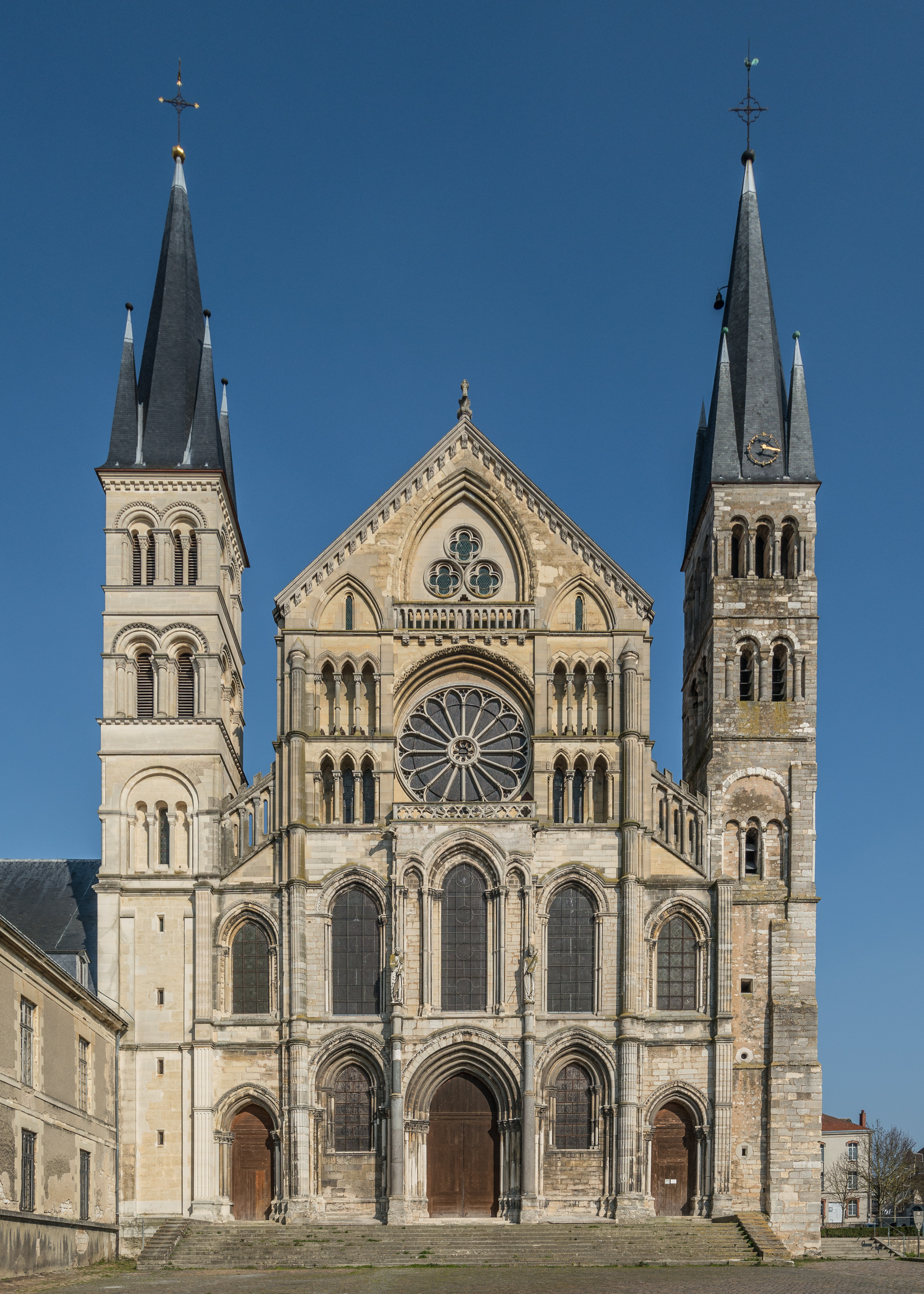 The west facade of the Basilique of the Abbey of Saint-Remi in Reims. The church is considered a part of the UNESCO World Heritage